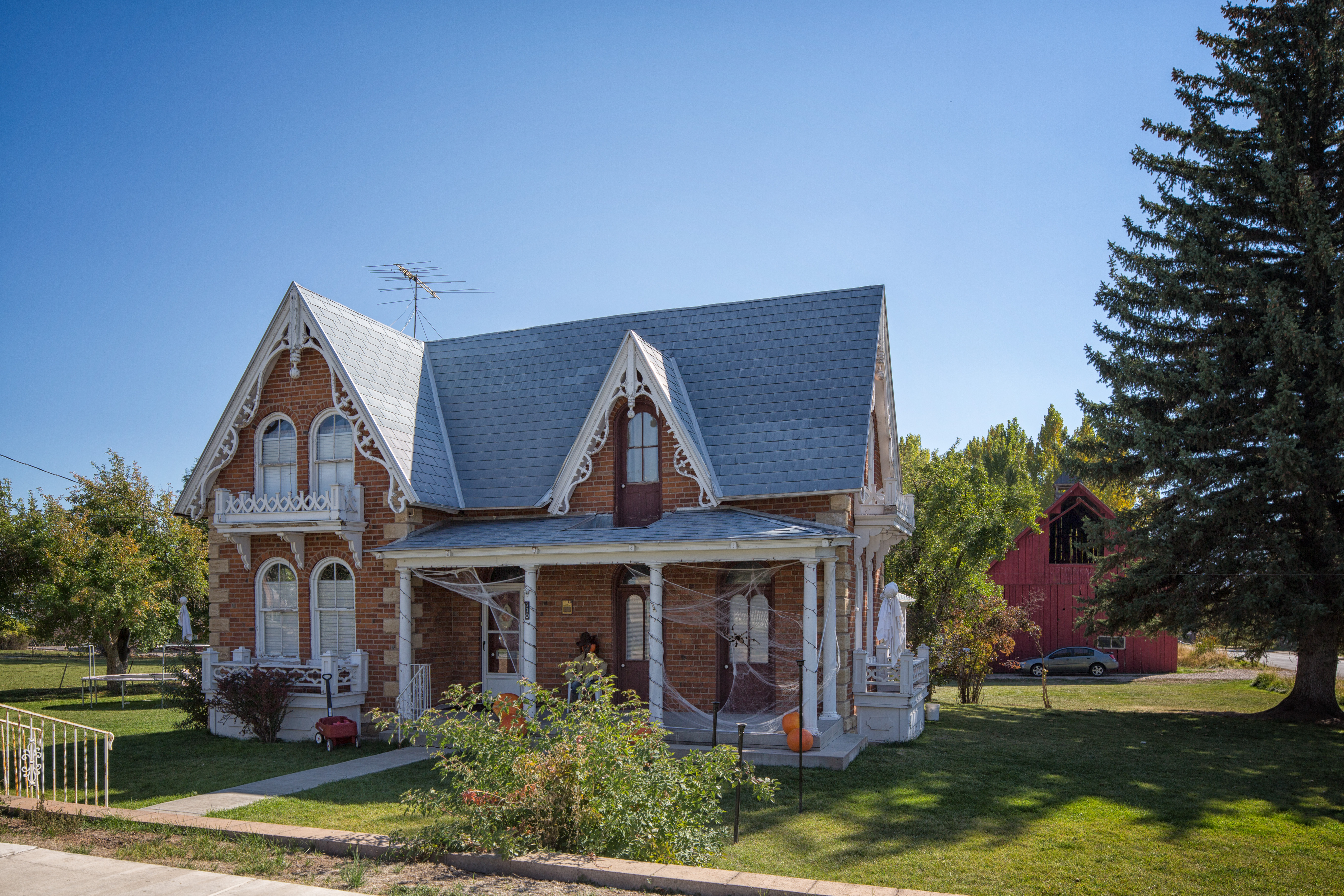 William Bonner House with barn in rear on the right.